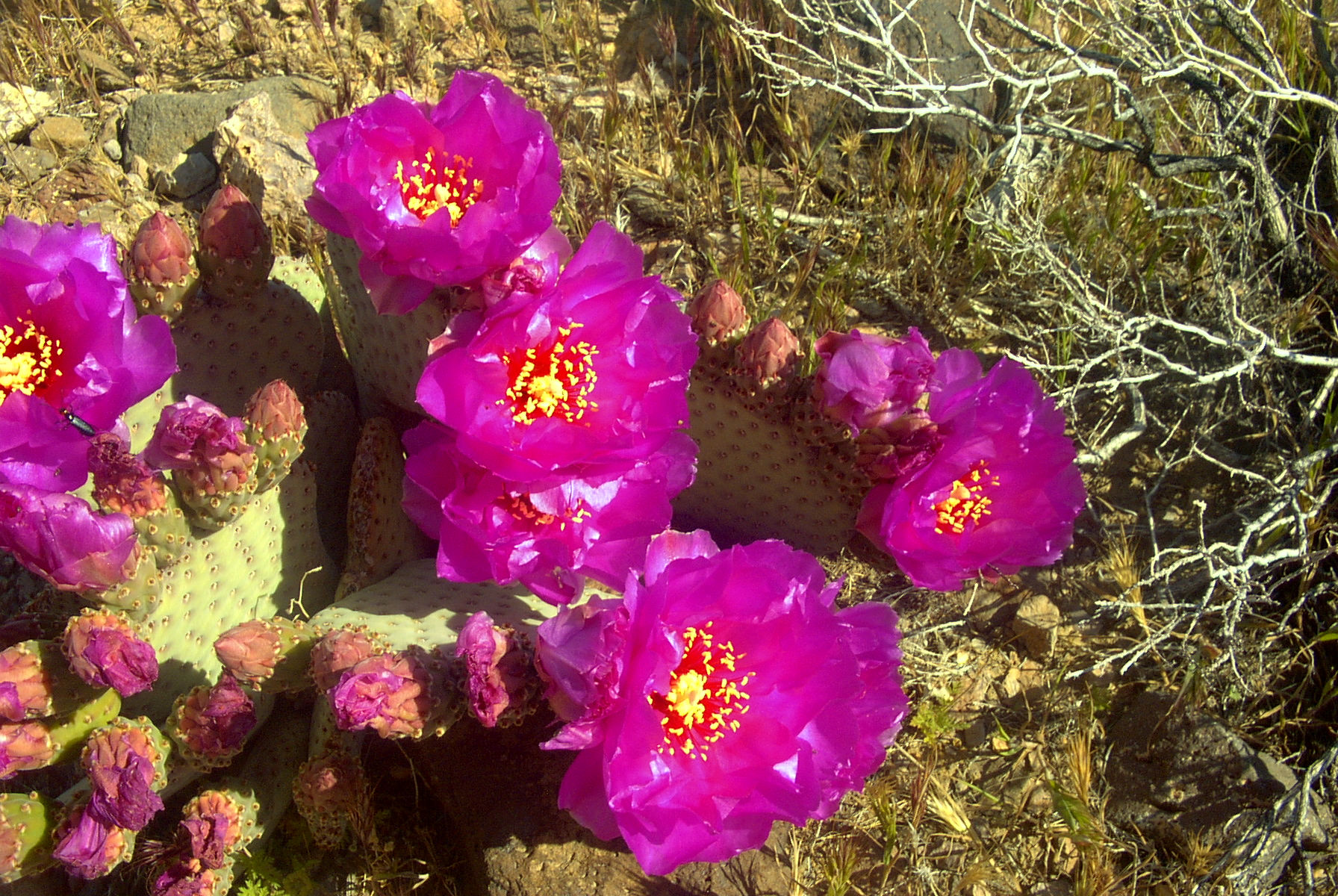 Flowers of Beaver Tail Cactus Opuntia basilaris, Mojave Desert, CA, USA.